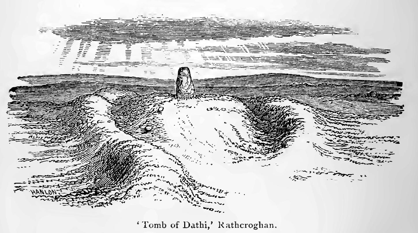 Sketch of the "Tomb of Dathi," part of the Rathcroghan complex in Ireland.